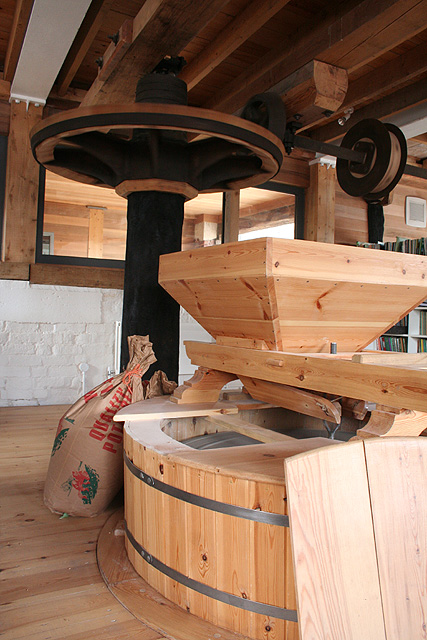 Exeter: Cricklepit Mill 3 The stone floor, with upright shaft and the runner stone of a pair of millstones exposed in its tun. Seen on an open day in July 2008 with tours organised by the owner, The Devon Wildlife Trust